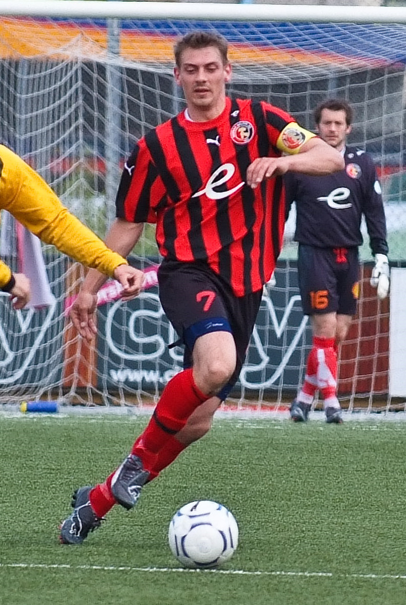 Fróði Benjaminsen, faroese football player while playing for HB Tórshavn (against NSÍ Runavík)